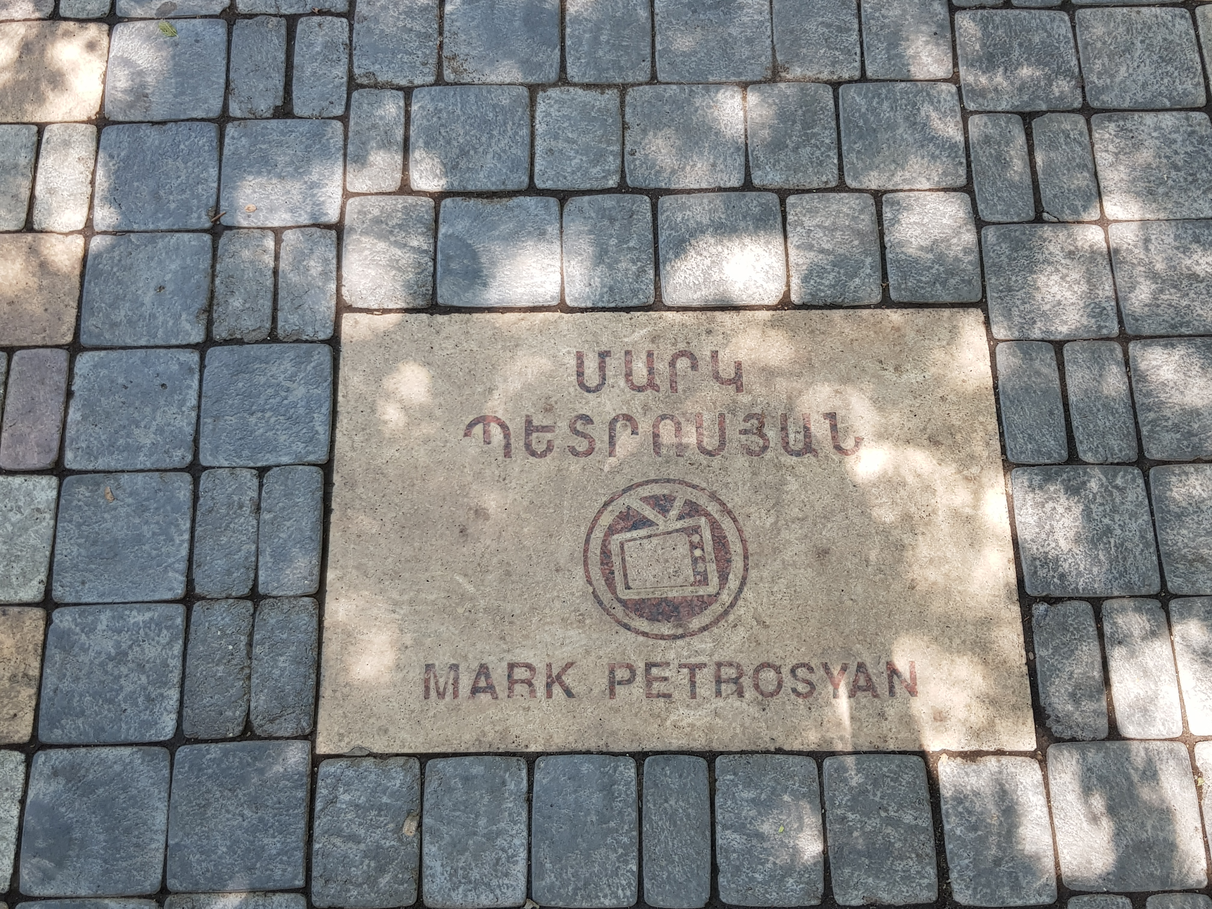 Alley of Devotees, Yerevan